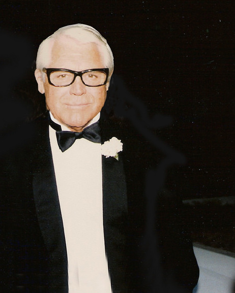 Cary Grant at the Carousel Ball, a benefit event for Children's Diabetes in Denver